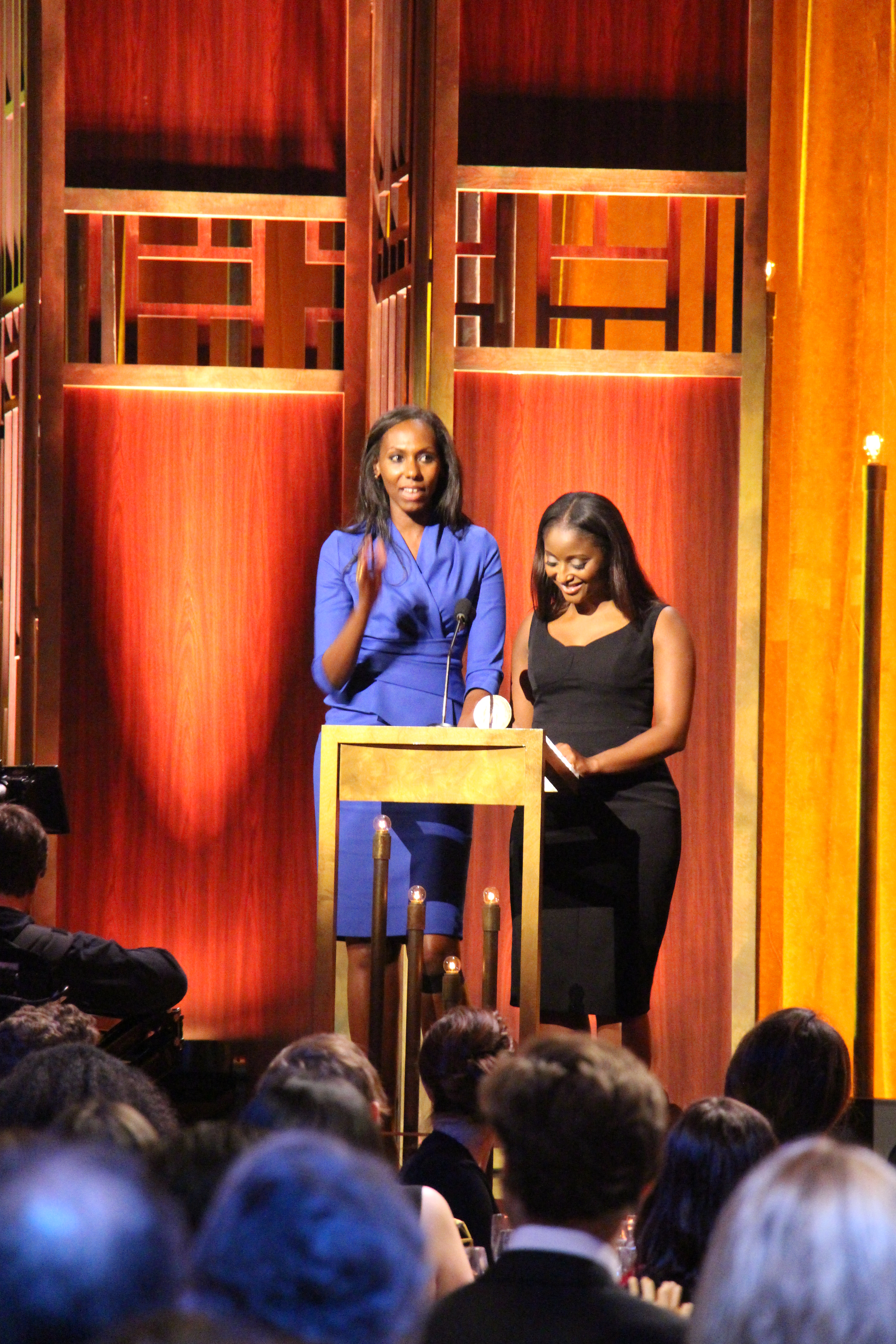 CNN Correspondent Nima Elbagir accepts the Peabody for CNN's coverage of the kidnapped Nigerian school girls. She is joined on stage by Isha Sesay.